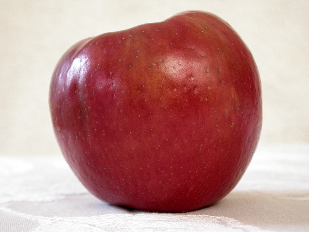 Pomme Honeycrisp ou HoneyCrunch